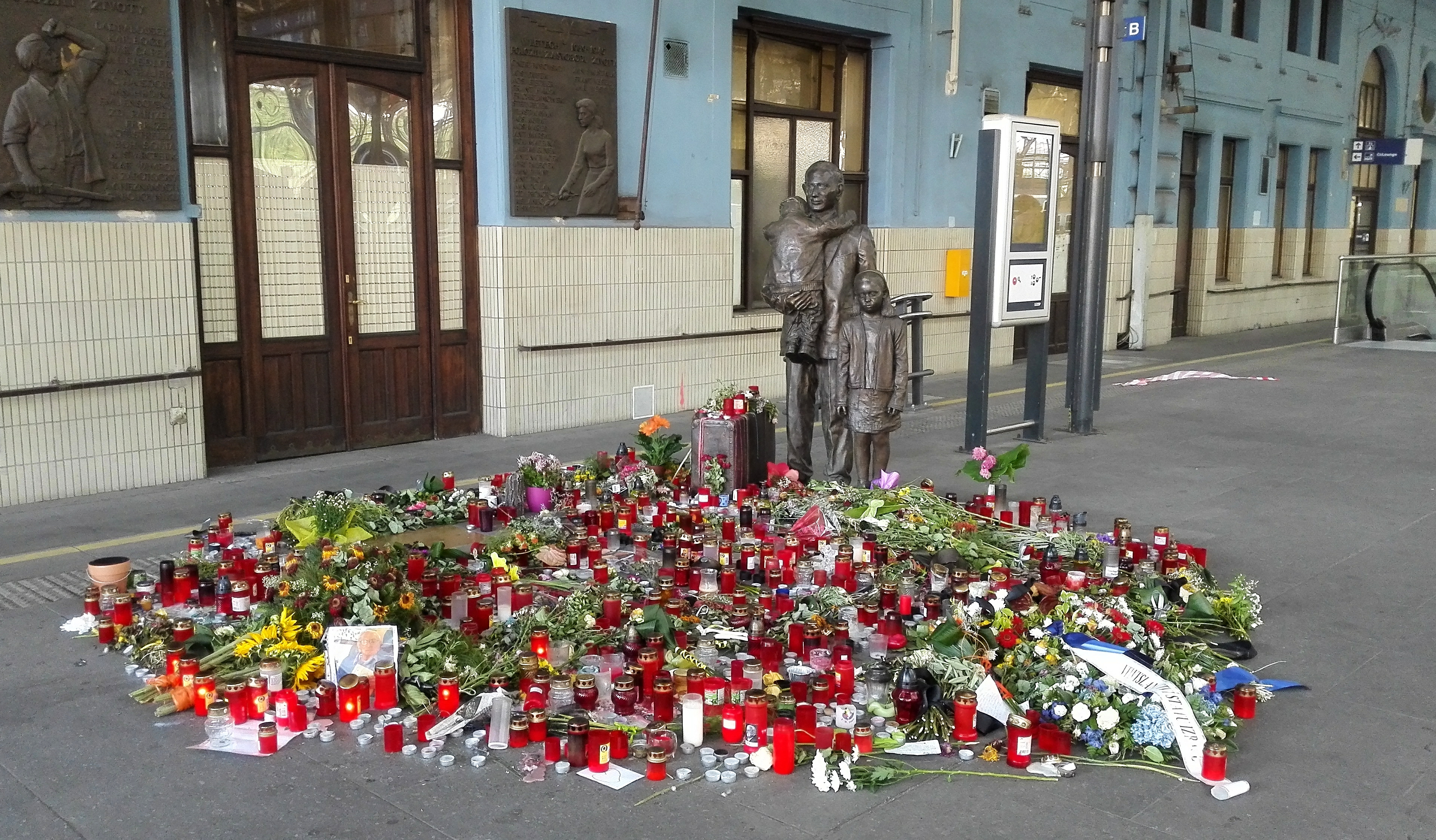 Monument to Nicholas Winton on the Praha hlavní nádraží train station (Prague, Czechia).